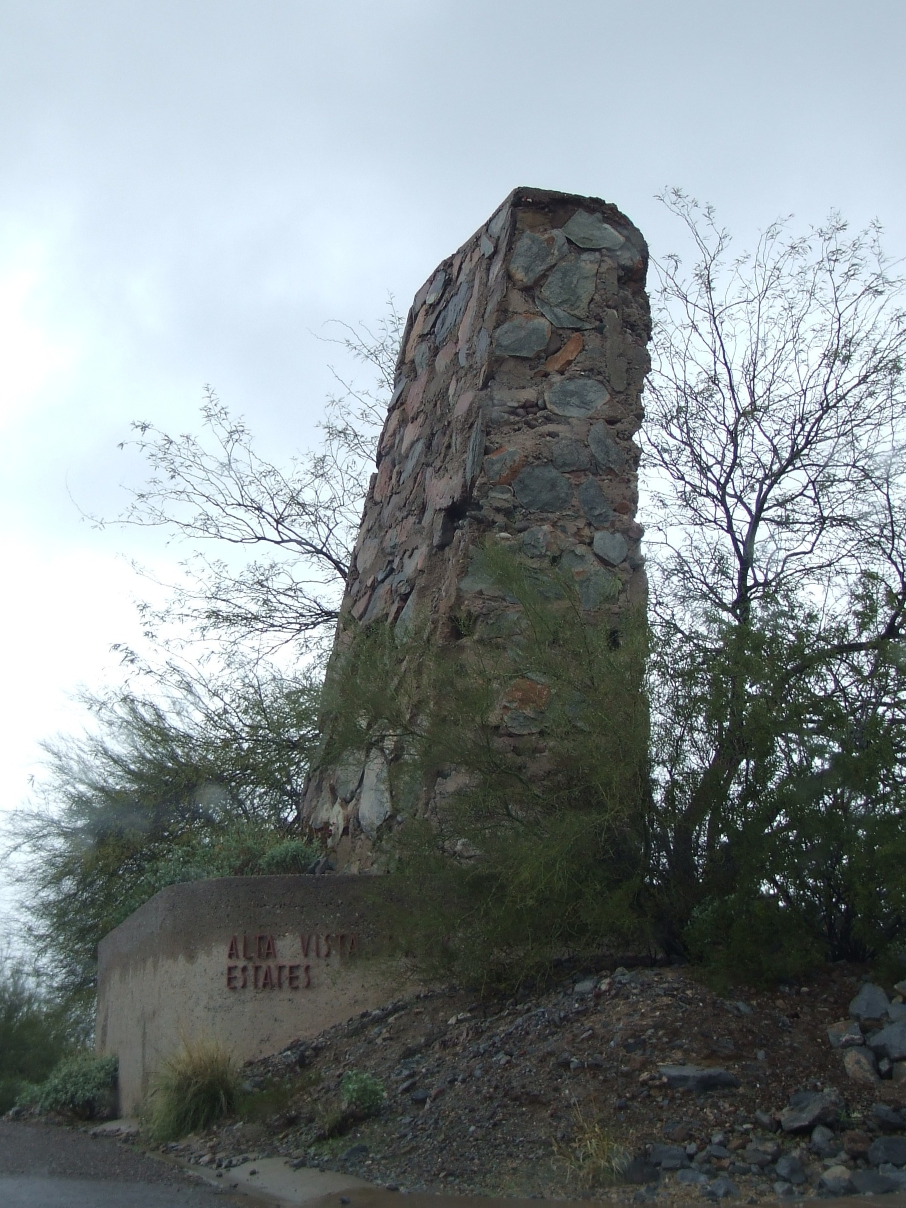 Rose Pauson House, Shiprock chimney, Phoenix, AZ